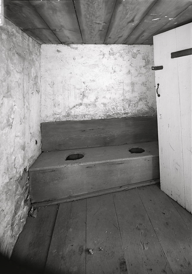 2 seater privy at Chichester Friends Meetinghouse on the NRHP since March 14, 1973. At 611 Meetinghouse Road Upper Chichester Township, Delaware County, Pennsylvania near Boothwyn, PA. Photo by Jack Boucher. Building goes back to 1769, and the meeting itself back to 1682 (before William Penn's visit to Pennsylvania)